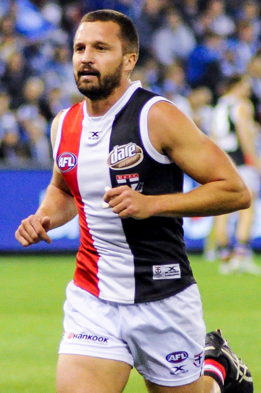 Jarryn Geary during the AFL round thirteen match between North Melbourne and St Kilda on 16 June 2017 at Etihad Stadium in Melbourne, Victoria.